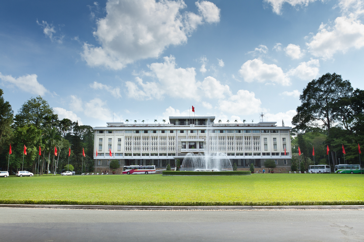 Front view of the Reunification Palace in Ho Chi Minh City, Vietnam